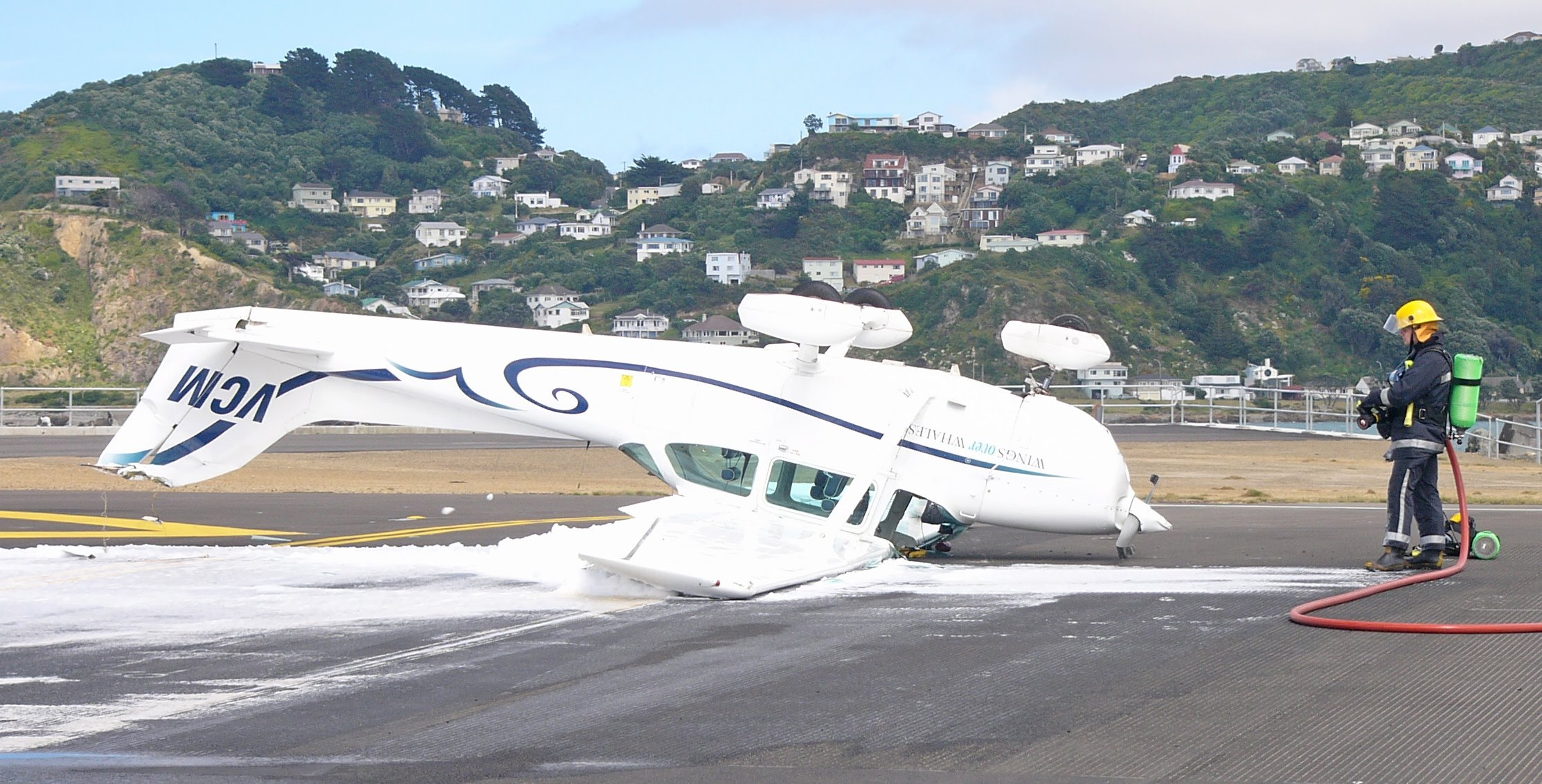 Cessna flipped at Wellington Airport